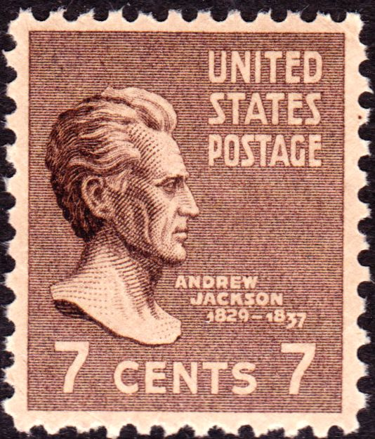 Andrew_Jackson_1938_Issue-7c.jpg